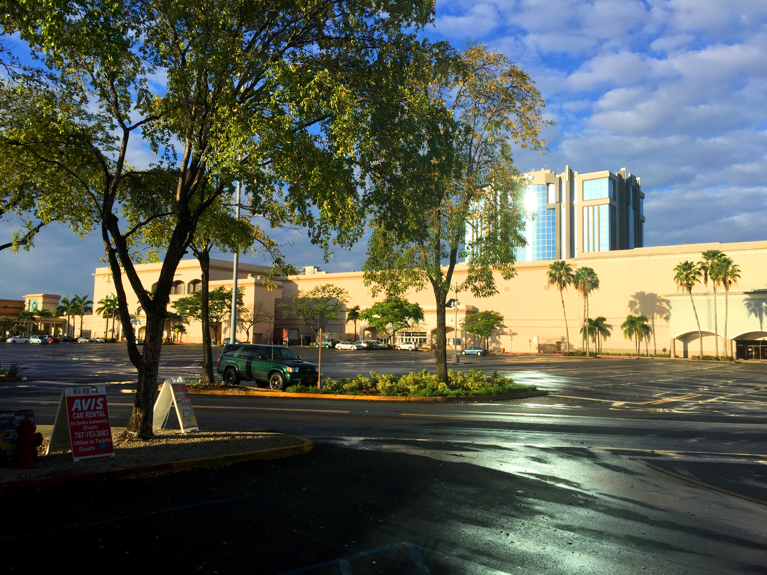 Plaza @ 7am before opening